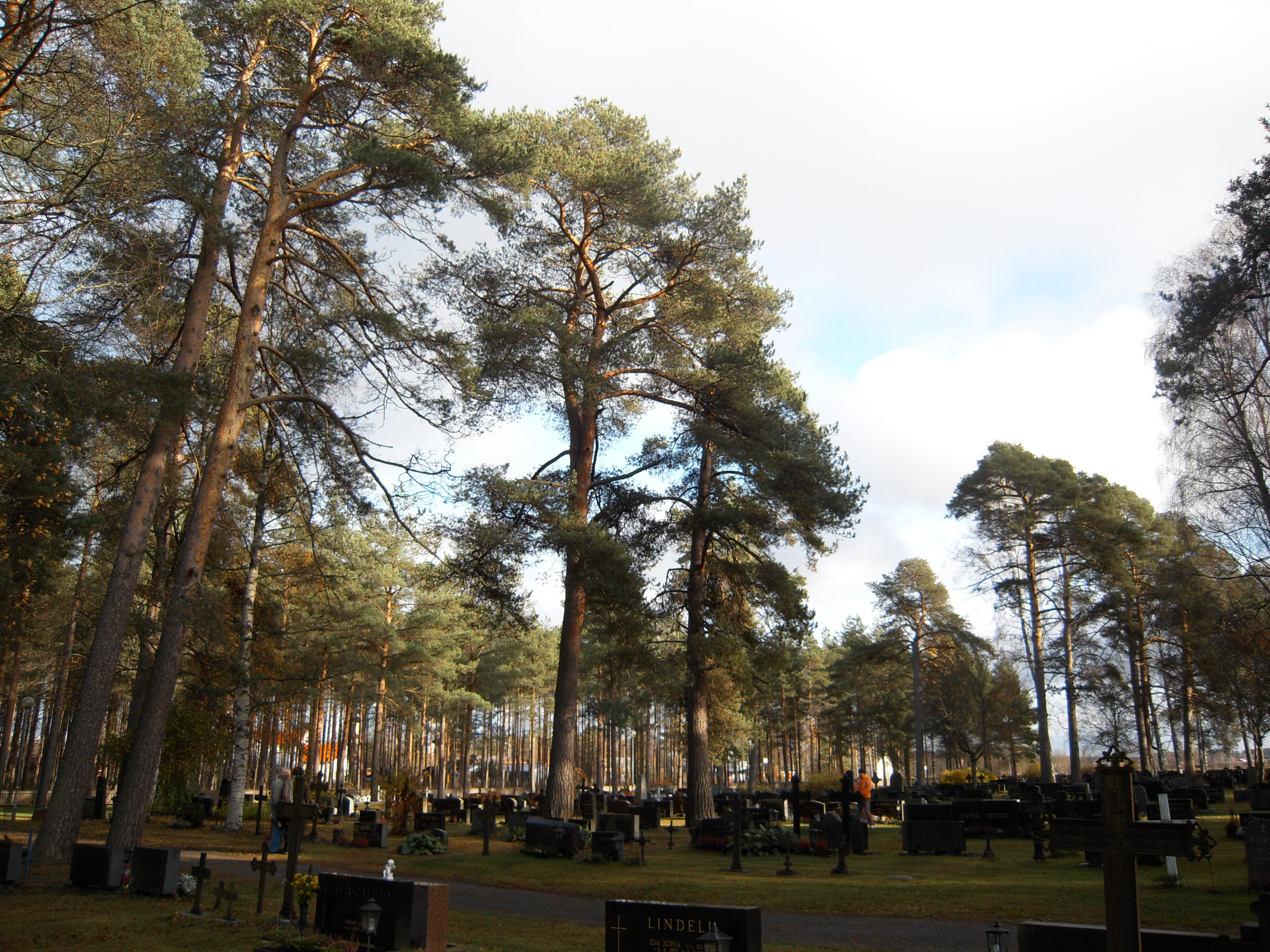 The cemetery of the city of Himanka, Keski-Pohjanmaa, Finland.